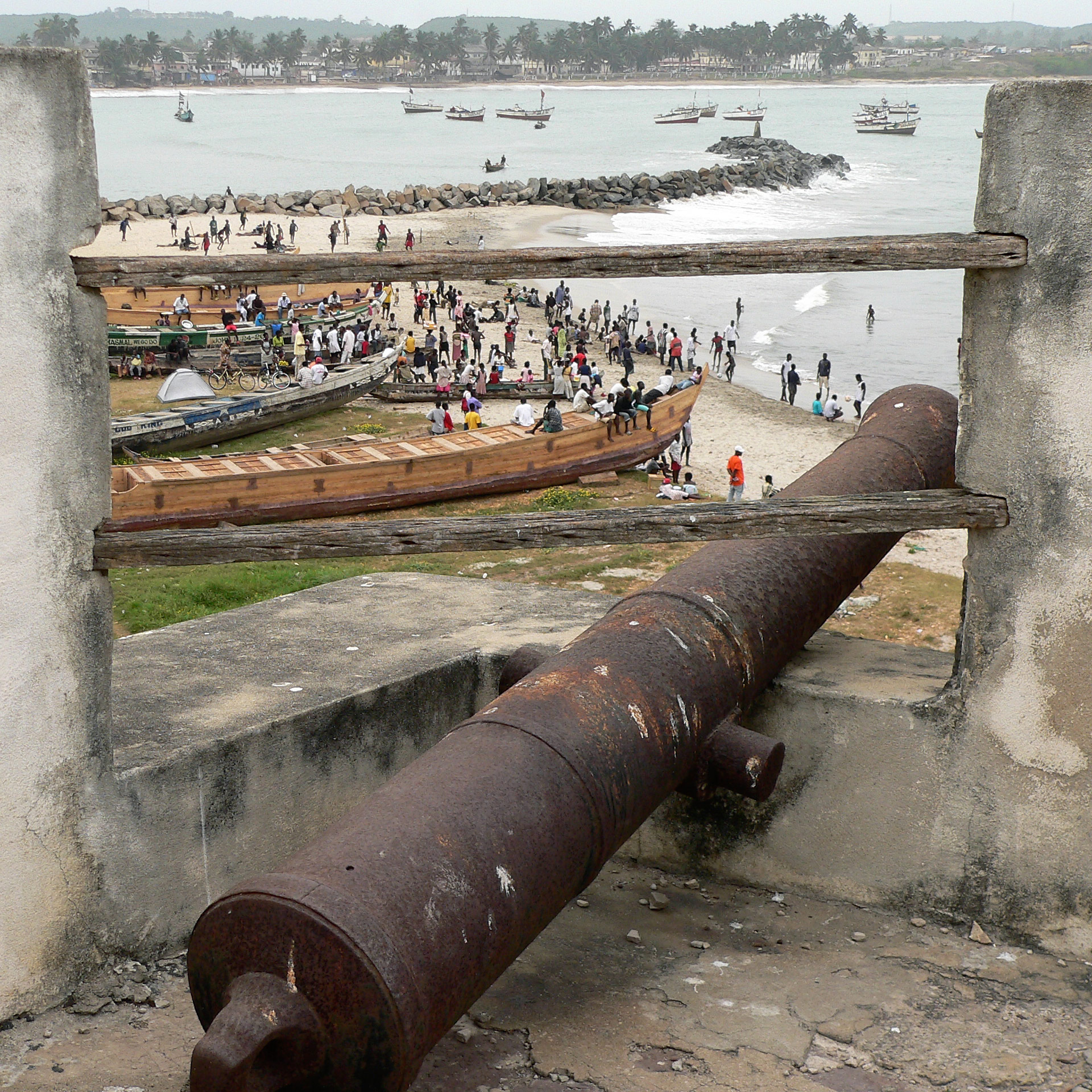 St George's Castle, slave fort, Elmina, Ghana 2005